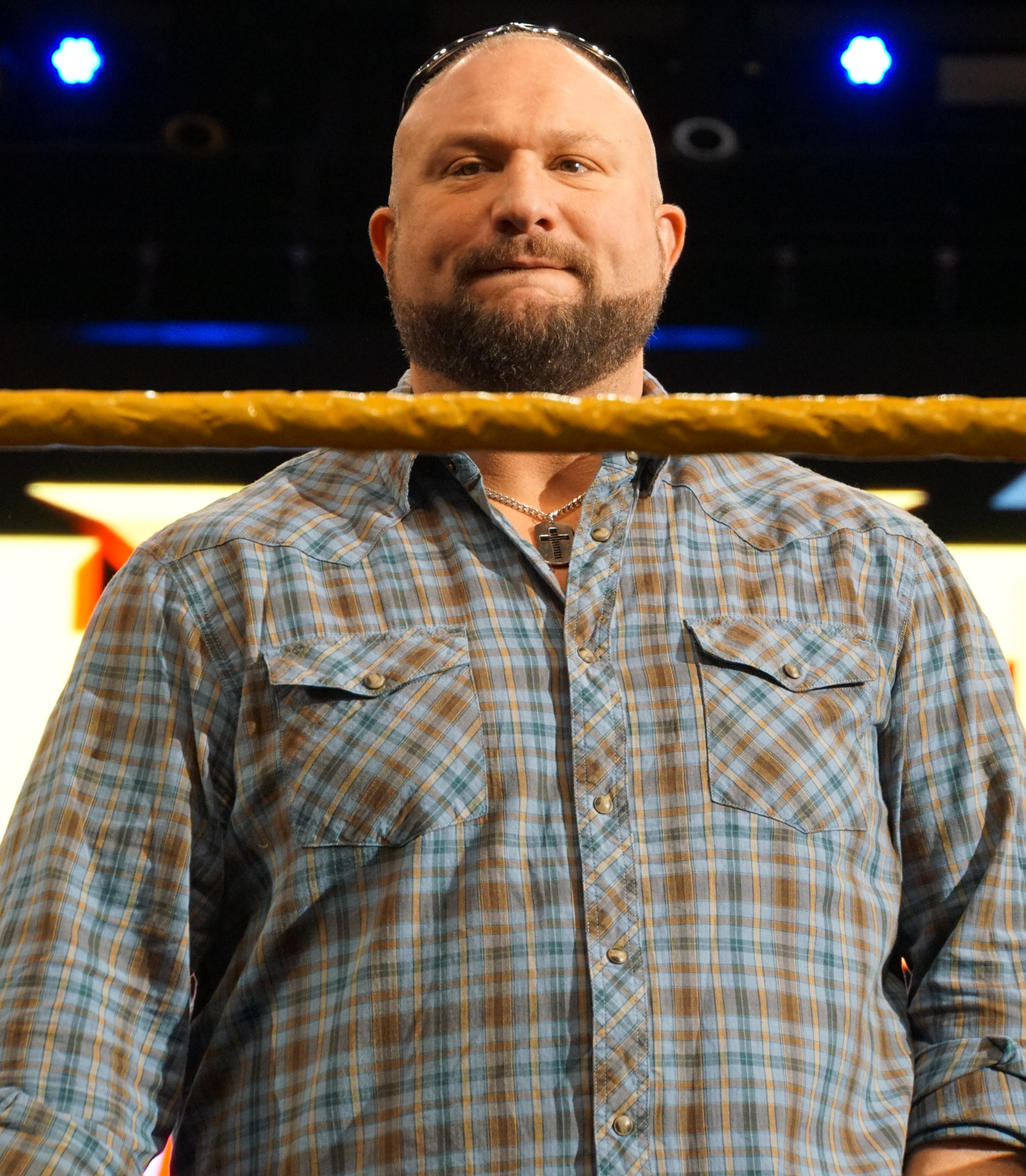 WrestleMania Axxess takes over the Kay Bailey Hutchison Convention Center in Dallas March 31-April 3. Featuring Superstar and Diva meet-and-greets, memorabilia displays and much more, WrestleMania Axxess is one event WWE fans of all ages will want to be part of. Don't miss out!